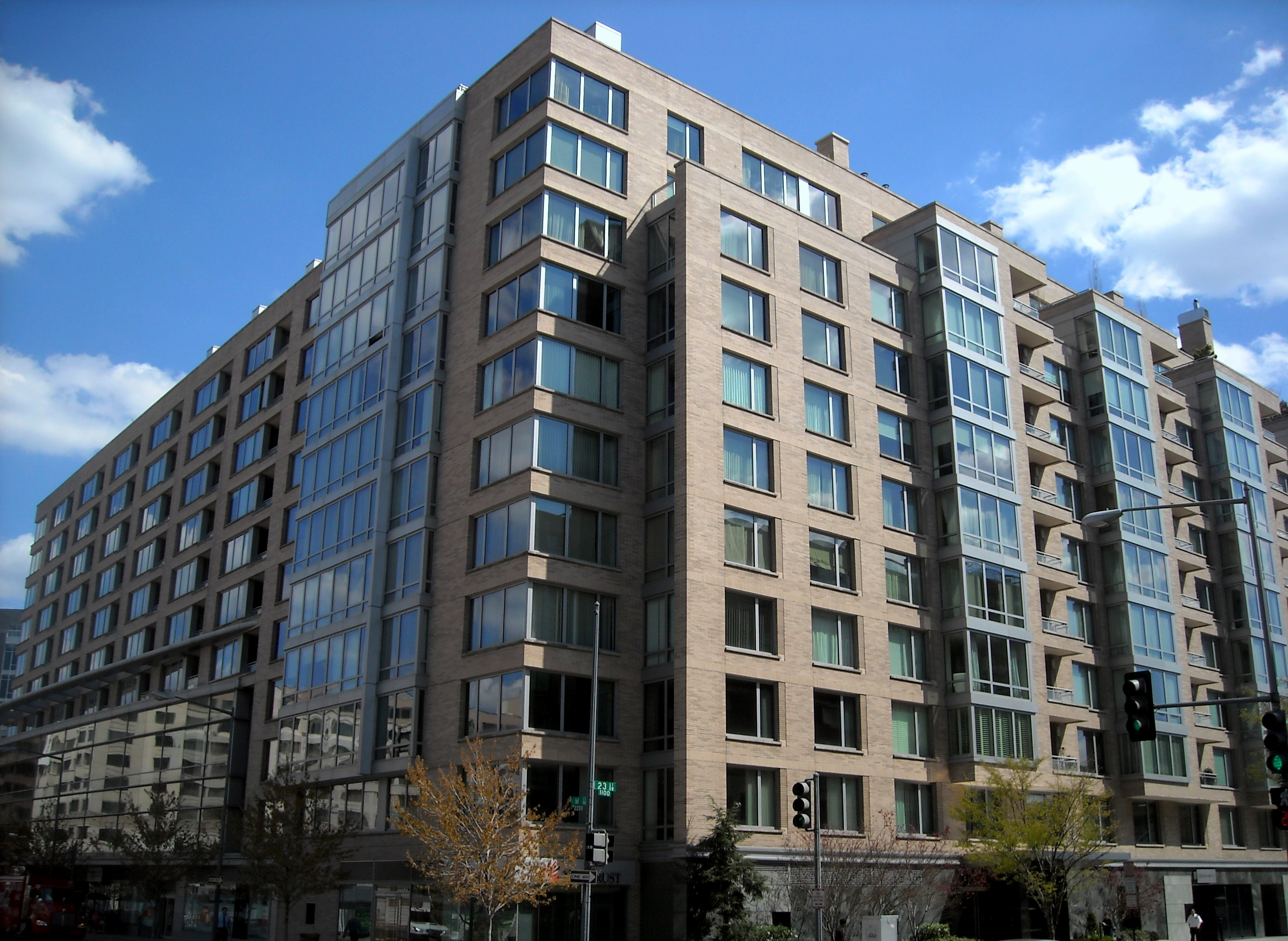 The Ritz-Carlton, Washington, D.C., located at 1150 22nd Street, N.W., in the West End neighborhood of Washington, D.C. (as viewed from the intersection of 23rd and M Streets, N.W., near the entrance to Ritz-Carlton Residences).